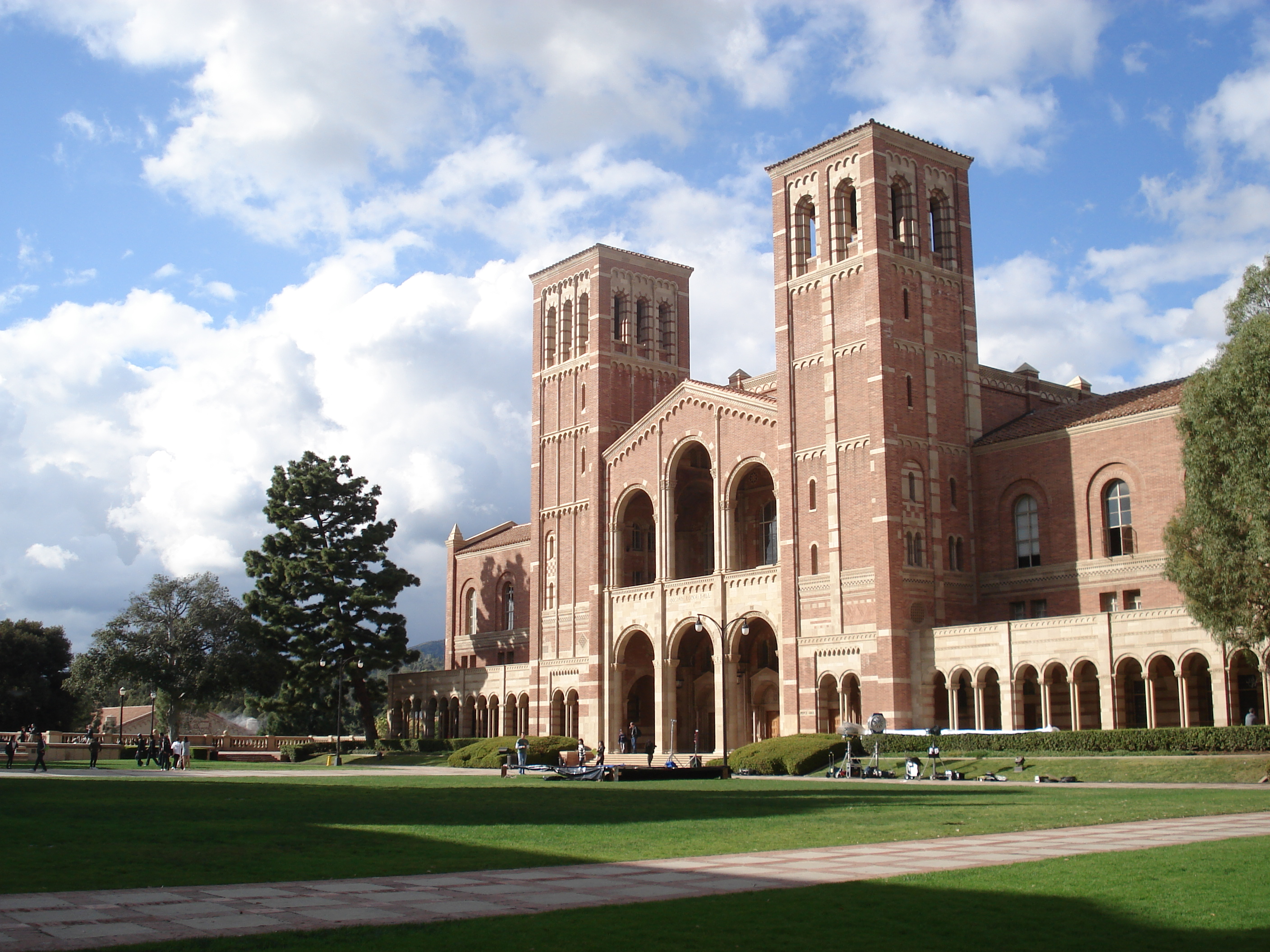 Royce Hall, UCLA's landmark building, stands in the midst of a glorious post-rain sky.